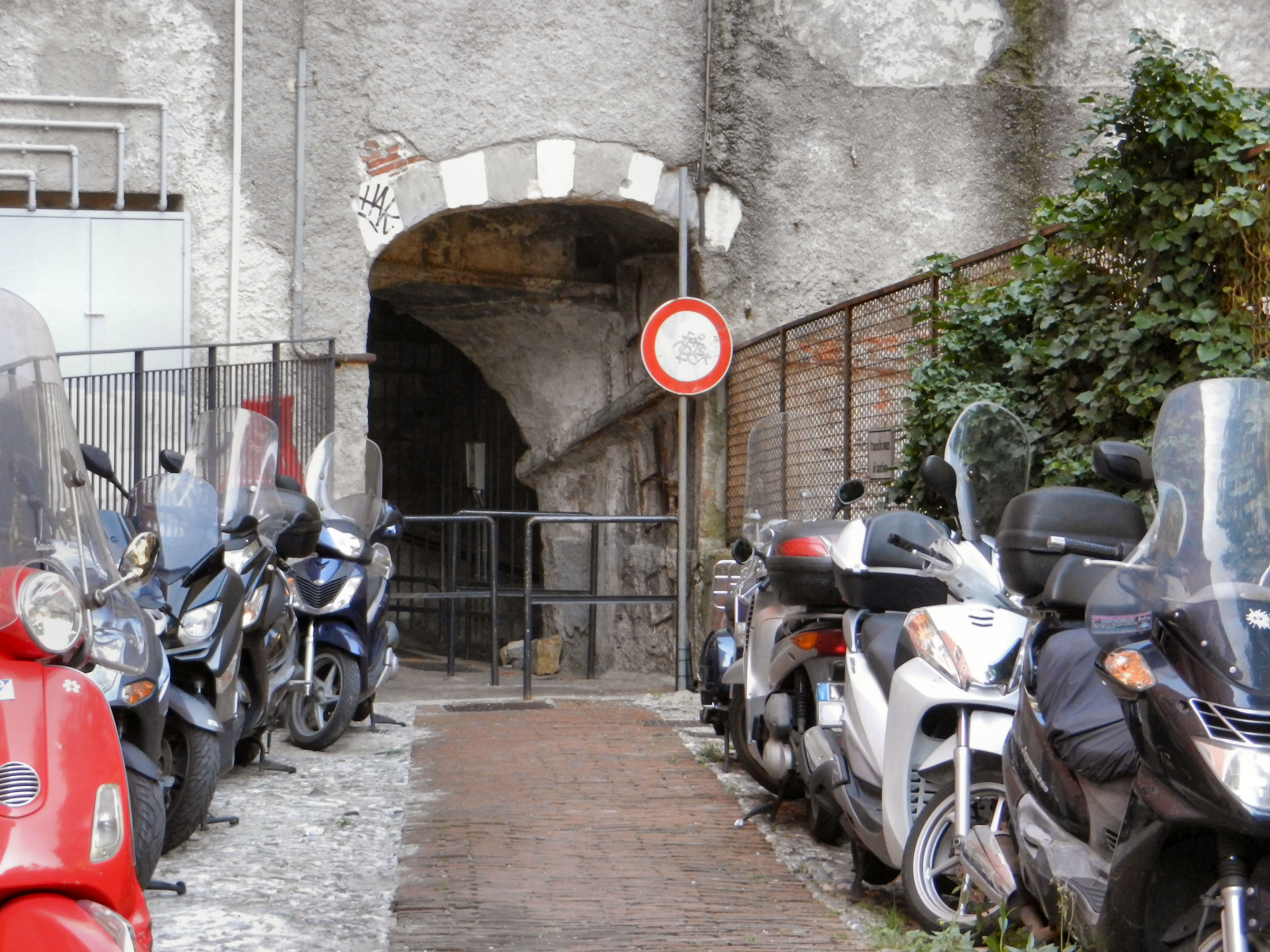 Genoa, Italy, quarter of Maddalena, the small gate of Pastorezza of "Barbarossa Walls" (12th century)